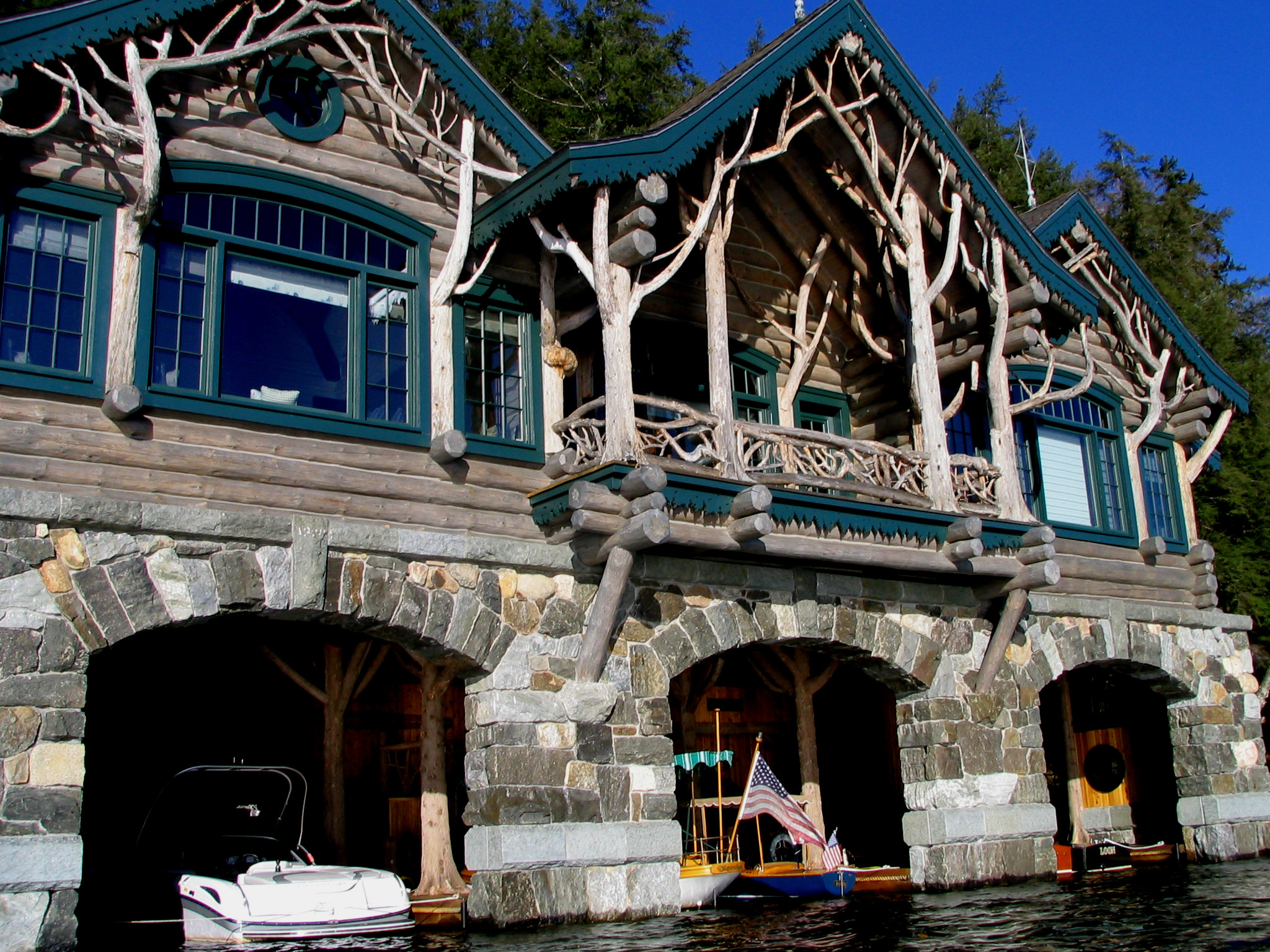 Closeup of the second boathouse at Camp Topridge, showing the boats. Taken by User:Mwanner, 22 October, 2007.